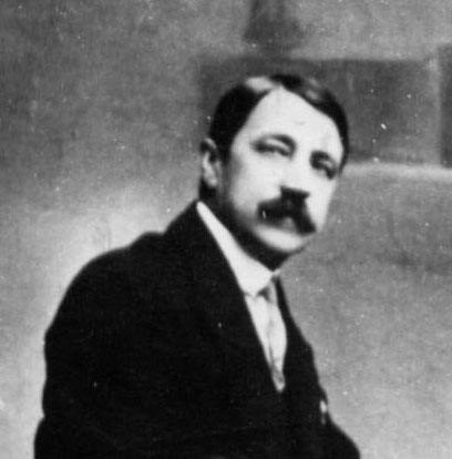 Matyushin M.V.